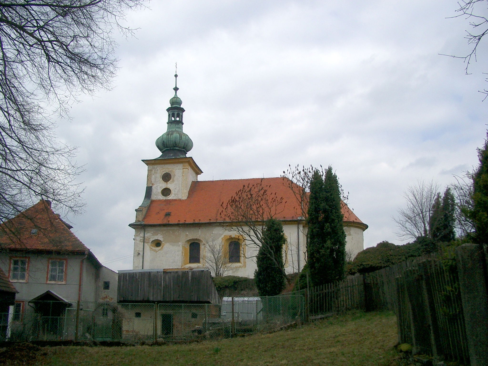 Kopanina, church of Saint George (and Saint Giles)